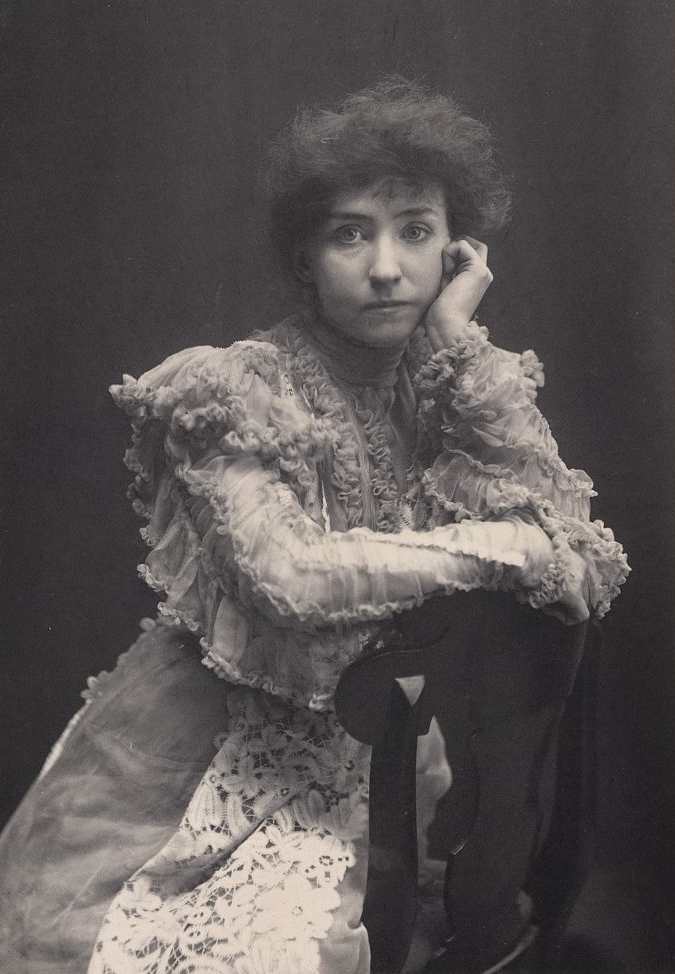 American actress Minnie Maddern Fiske, a.k.a. Mrs. Fiske (1865-1932). Photograph by Zaida Ben-Yusuf entitled: "Mrs. Fiske, 'Love finds the way'".